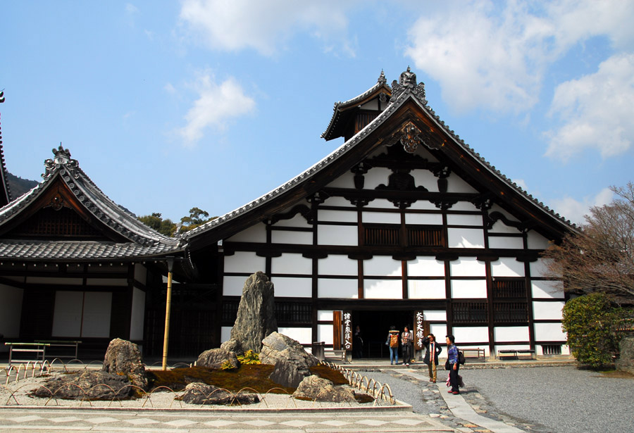 Tenryū-ji is an important Buddhism temple located in Sogano area, west of Kyoto, Japan. It was registered as an UNESCO World Heritage Site as part of the Historic Monuments of Ancient Kyoto. This photo shows the temple's frontal entrance, through which visiters can walk to the building complex zone, seperated from the garden zone.